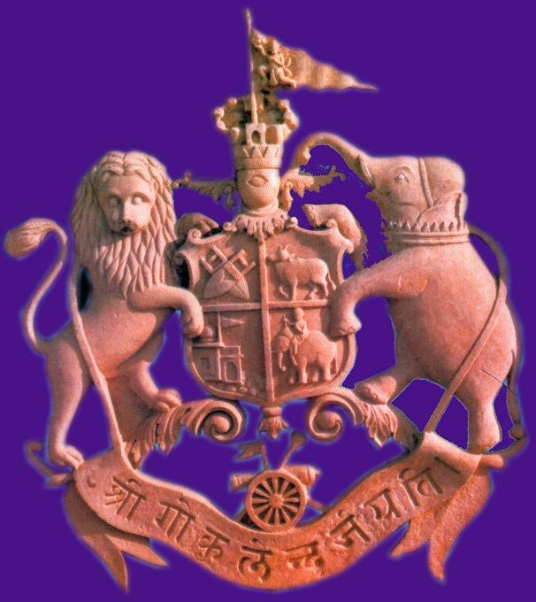 Image created by LRBurdak